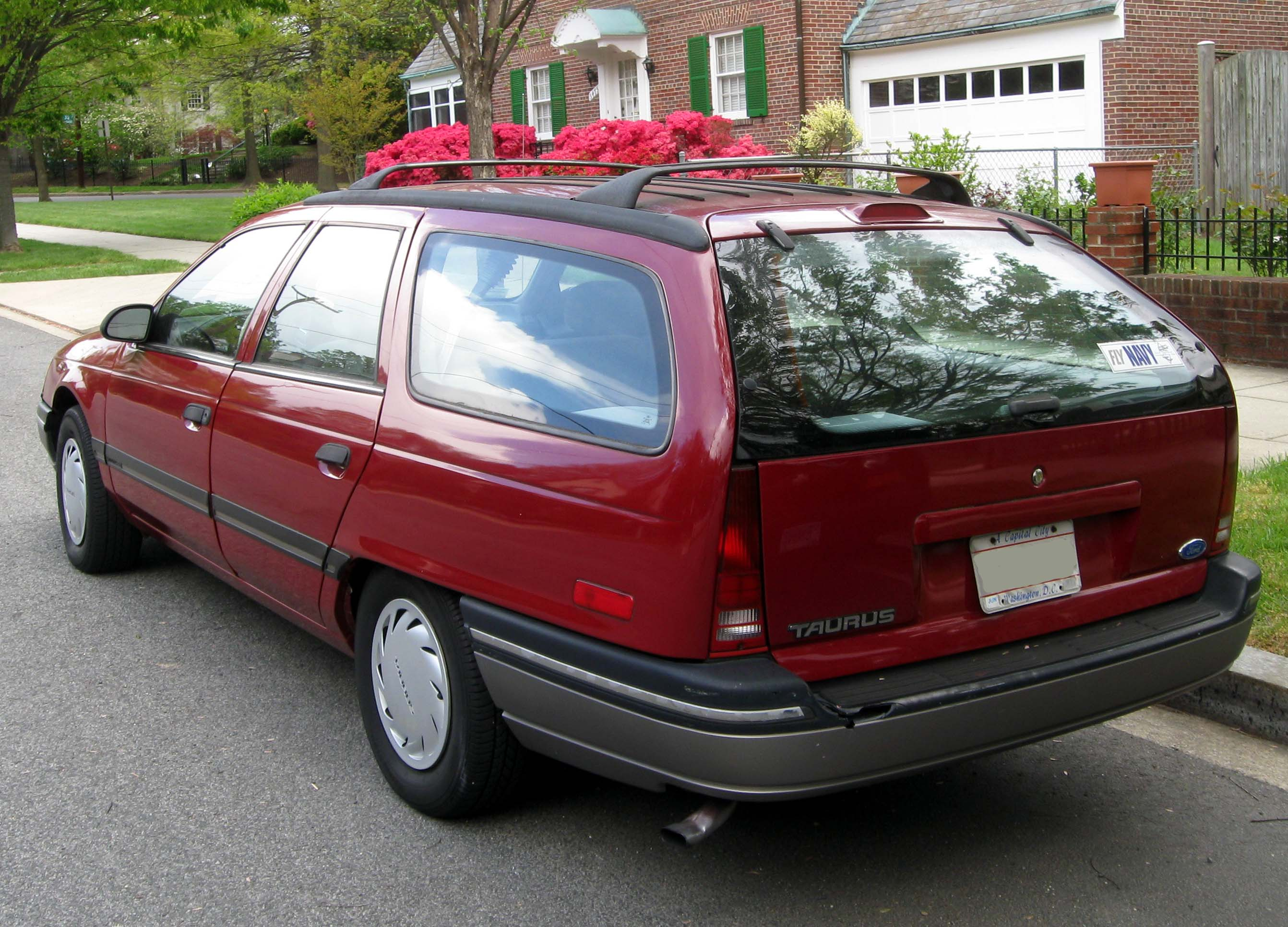 Ford Taurus photographed in Washington, D.C., USA.